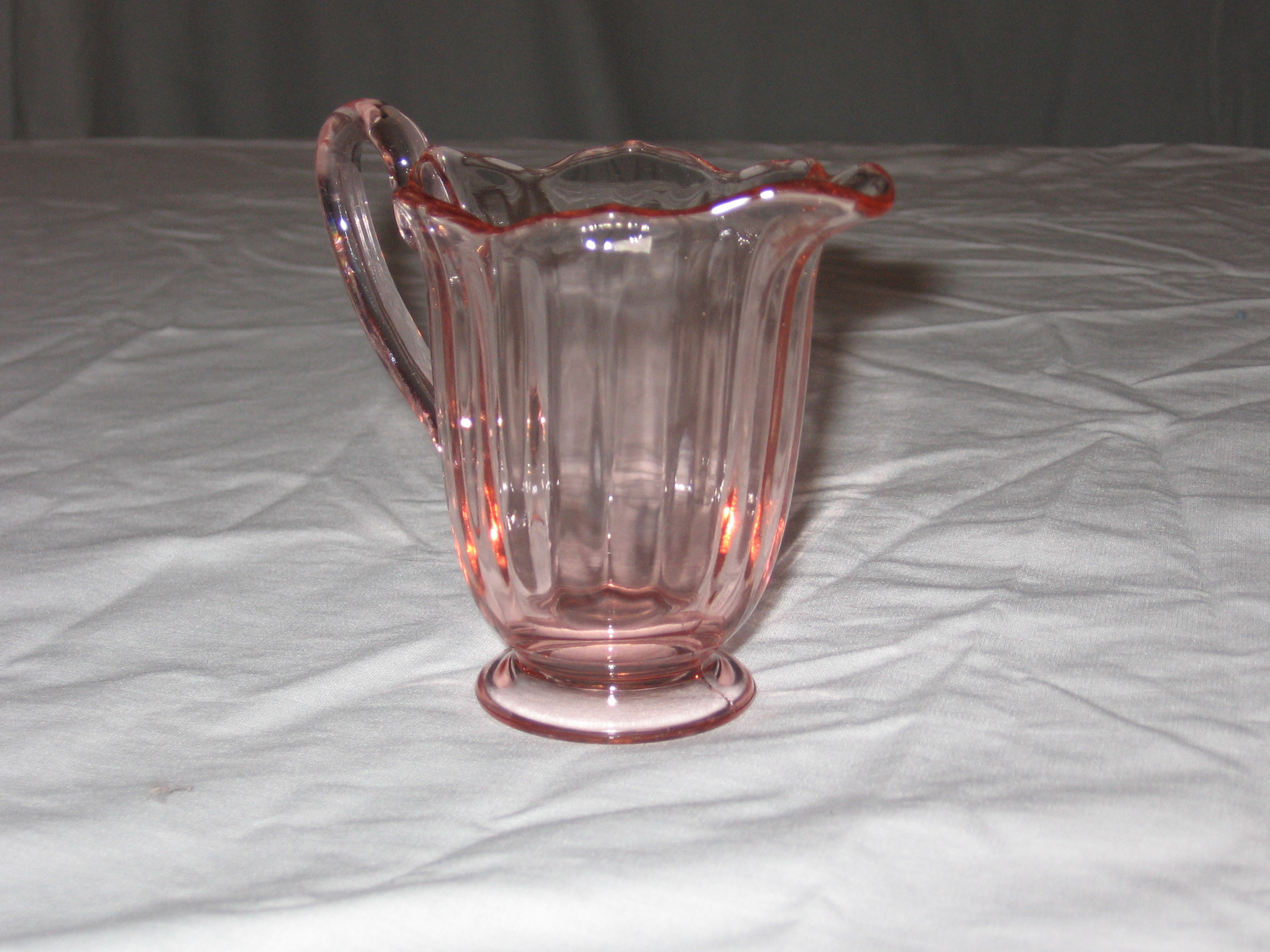 This is a pink creamer.